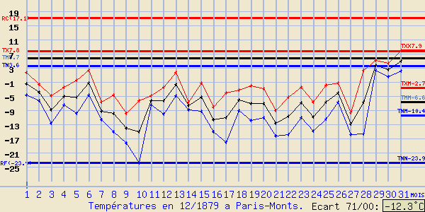 Temperatures in Paris in the famous December 1879